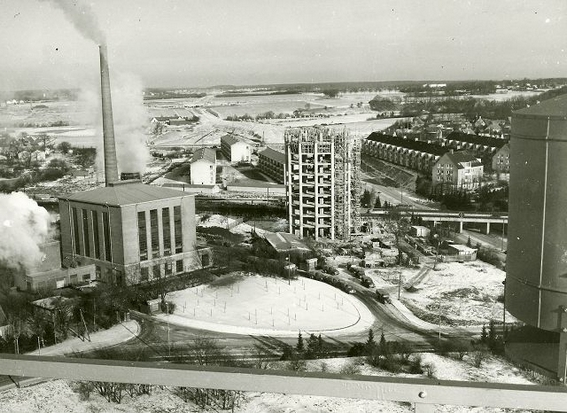 Hægersborg Water Tower under construciton next to Jægersborg Incenaration Plant in Gentofte Municipality north of Copenhagen, Denmark